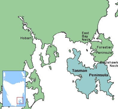 Tasman Peninlsula